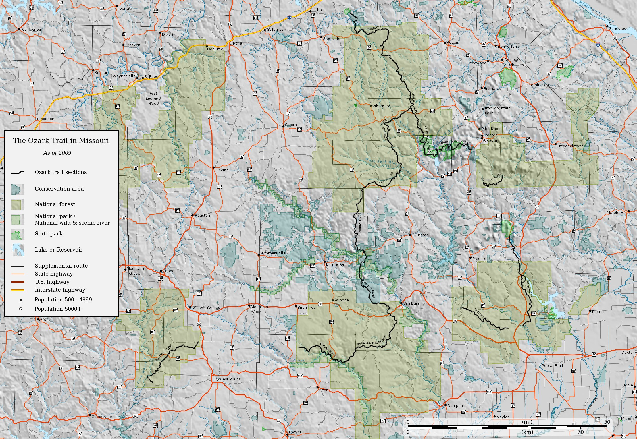 Relief map of the Ozark Trail in Missouri as of January 2009.